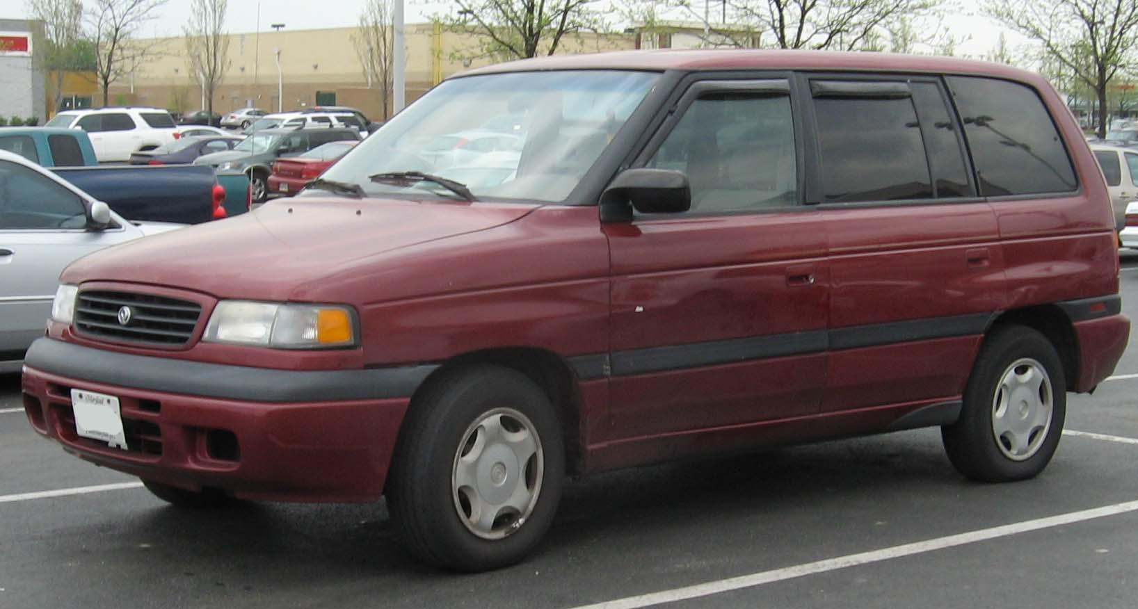 1995-1996 Mazda MPV photographed in USA.